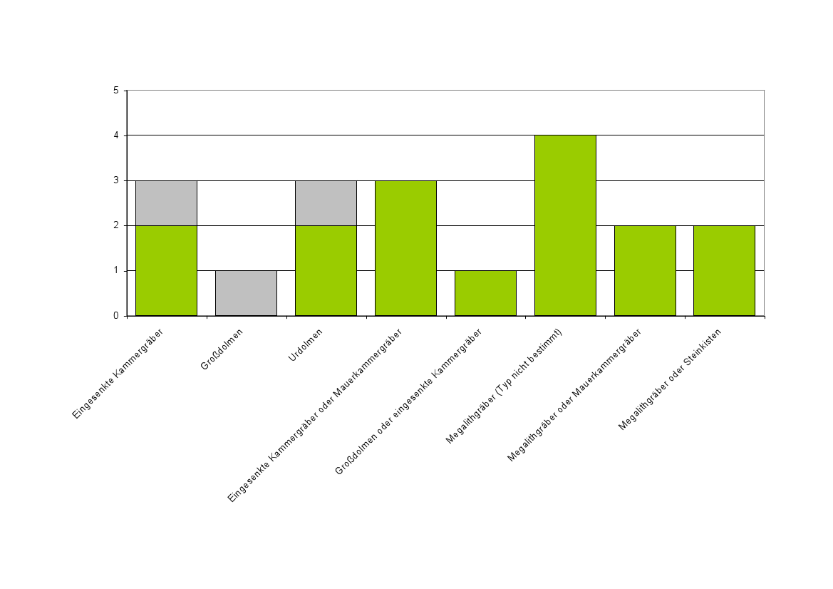 Types of megalithic tombs of the Hercynic Group